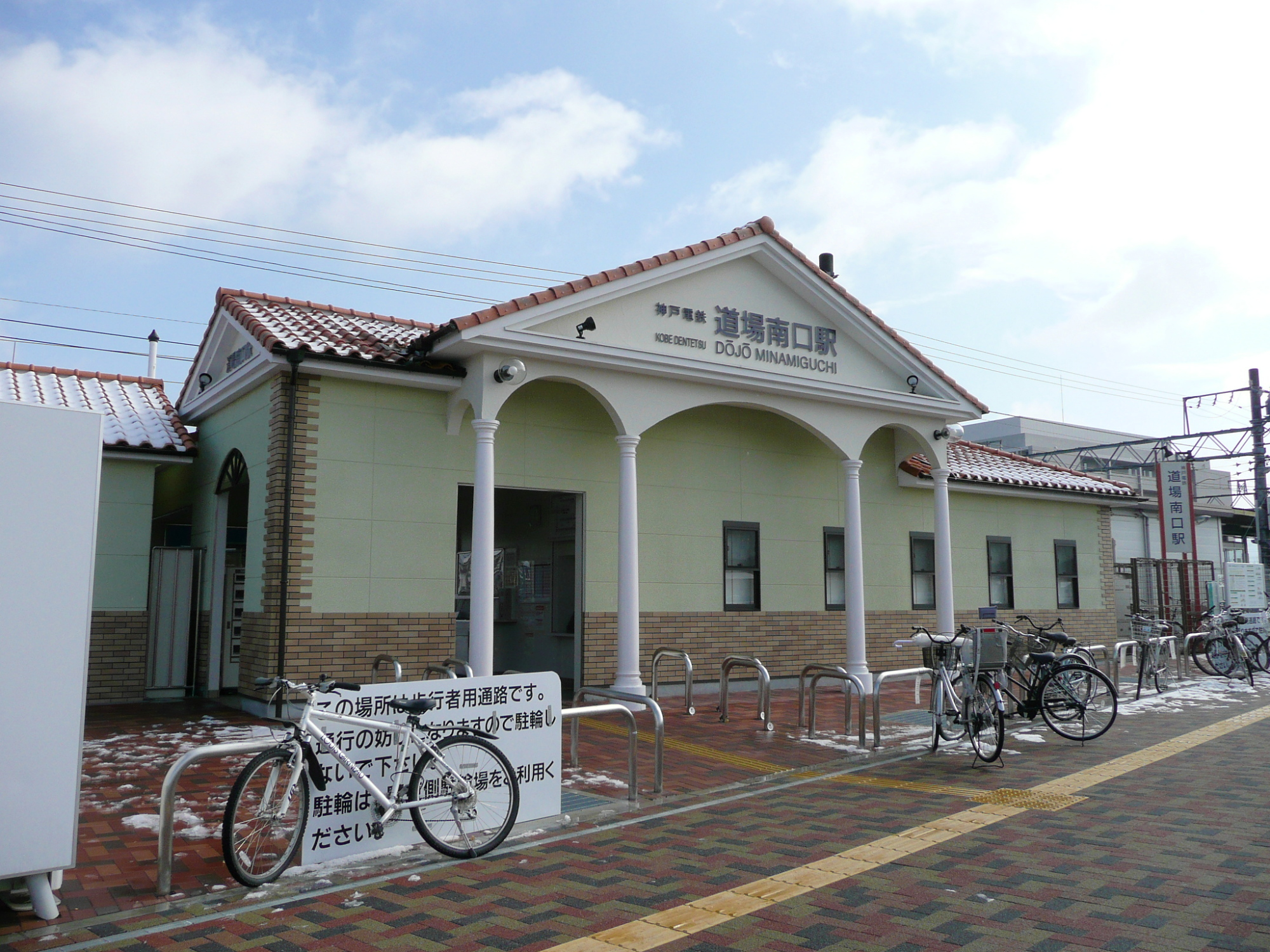 Kobe Electric Railway Dojo-Minamiguchi Station